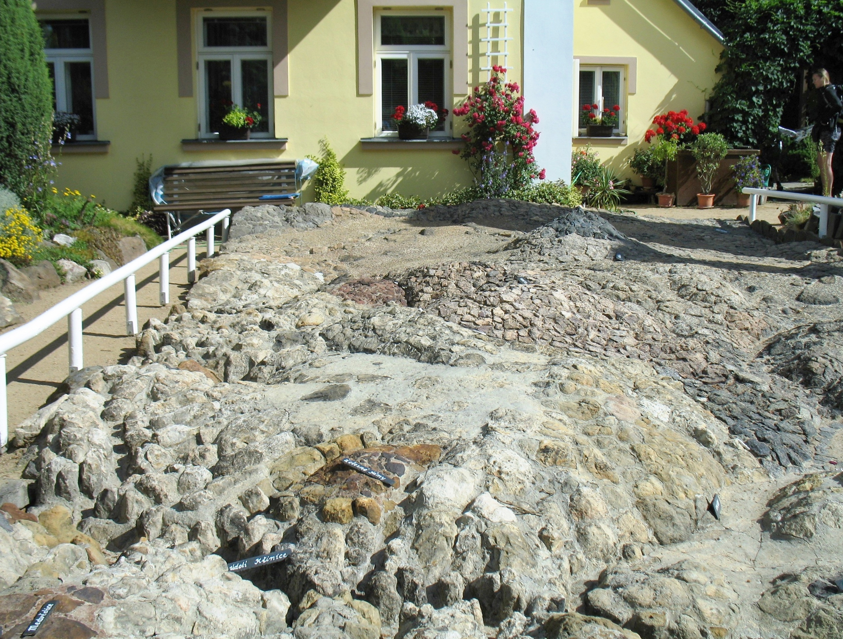 Rudolf Kögler´s geological map in Zahrady. Cultural monument in Děčín District, Czech Republic